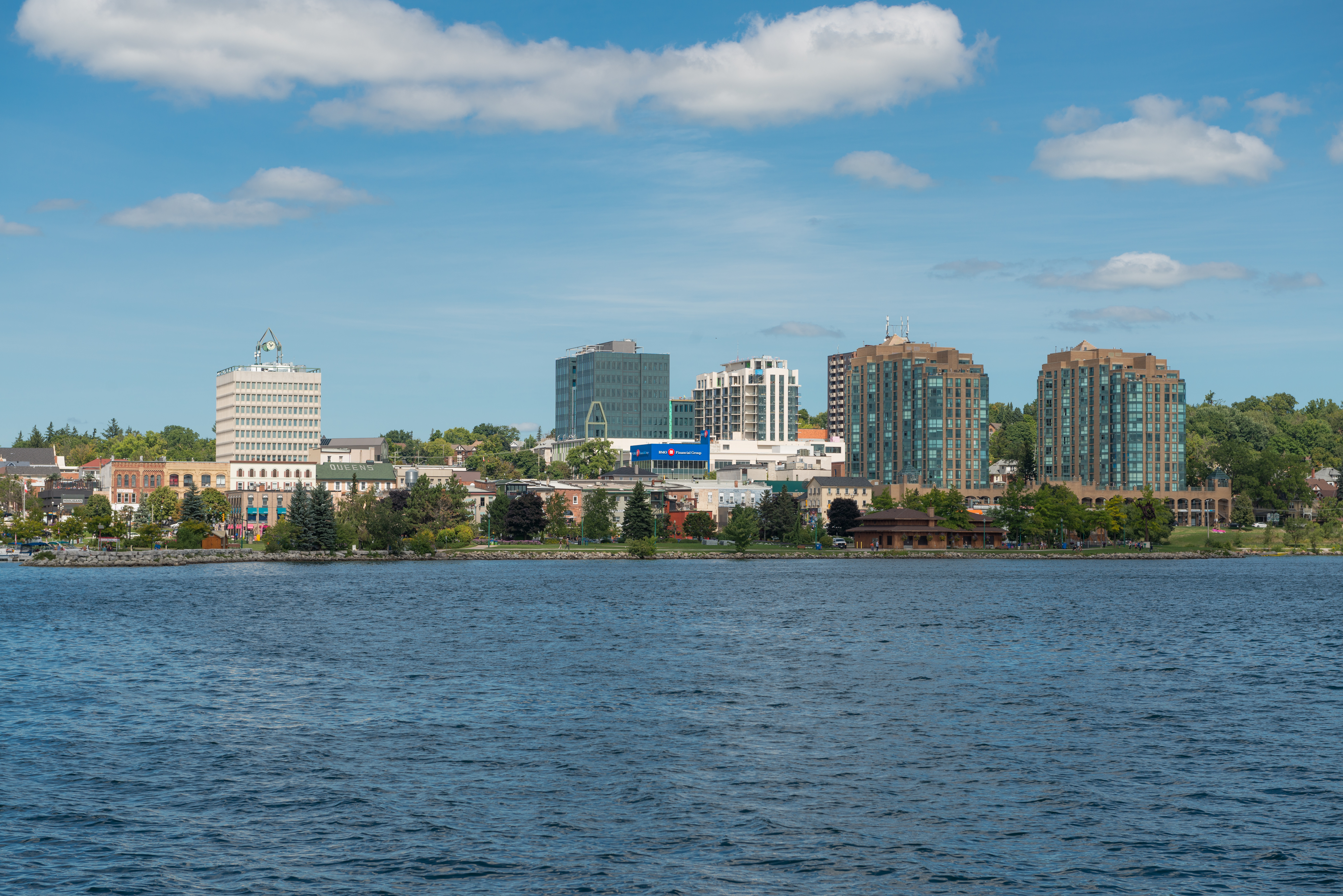 Downtown Barrie from Kempenfelt Bay